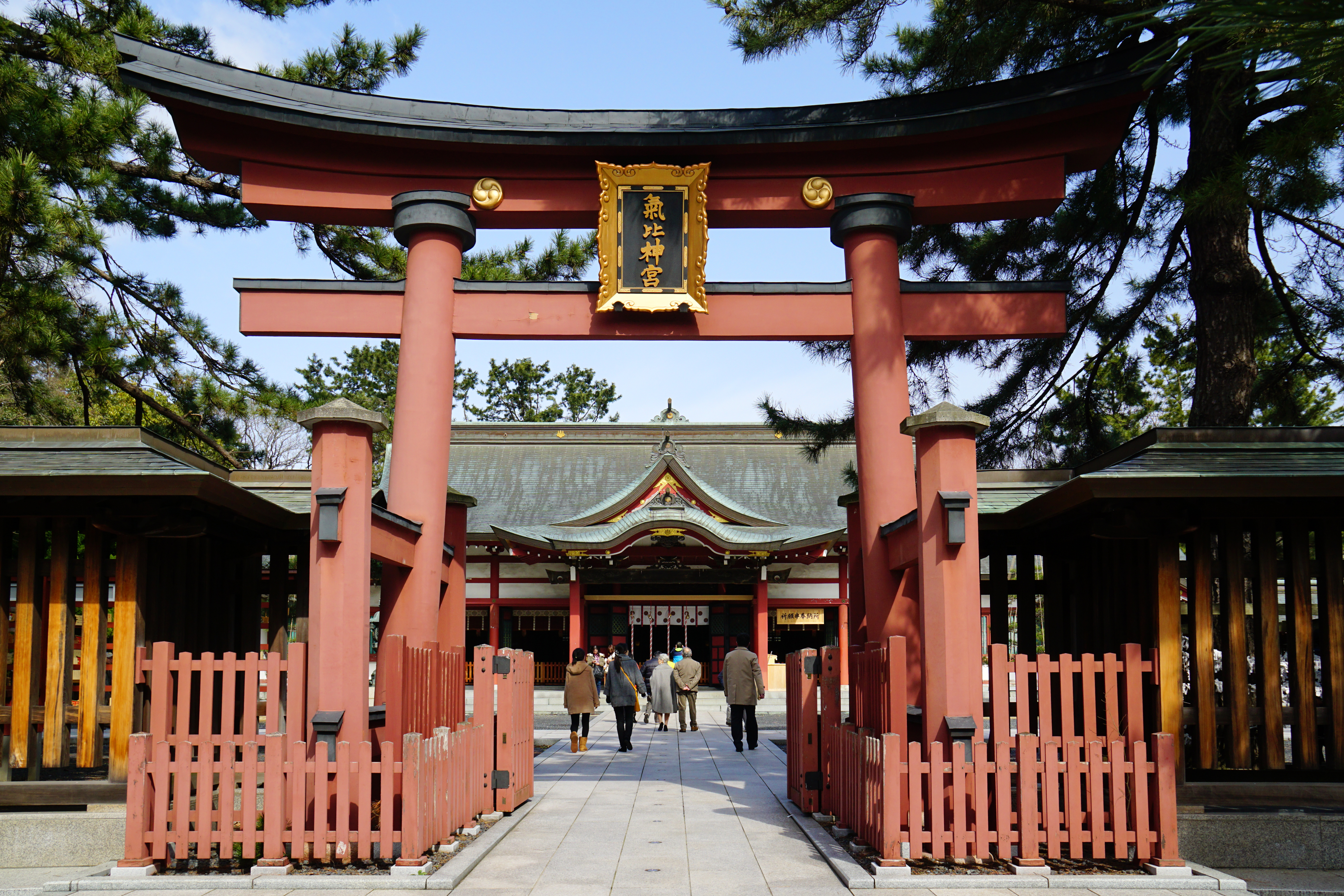 Kehi-jingu in Tsuruga, Fukui prefecture, Japan.